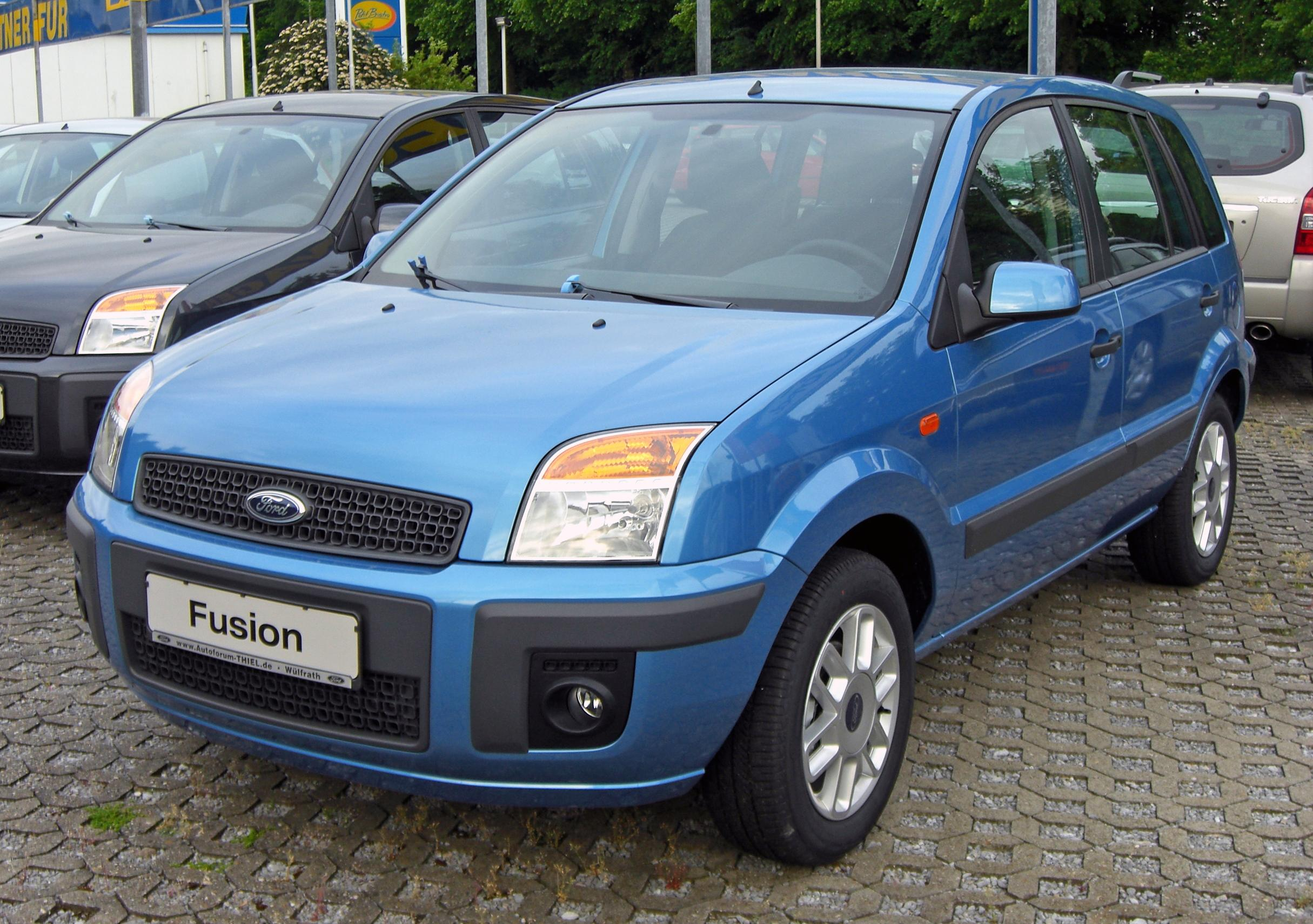 Ford Fusion Facelift